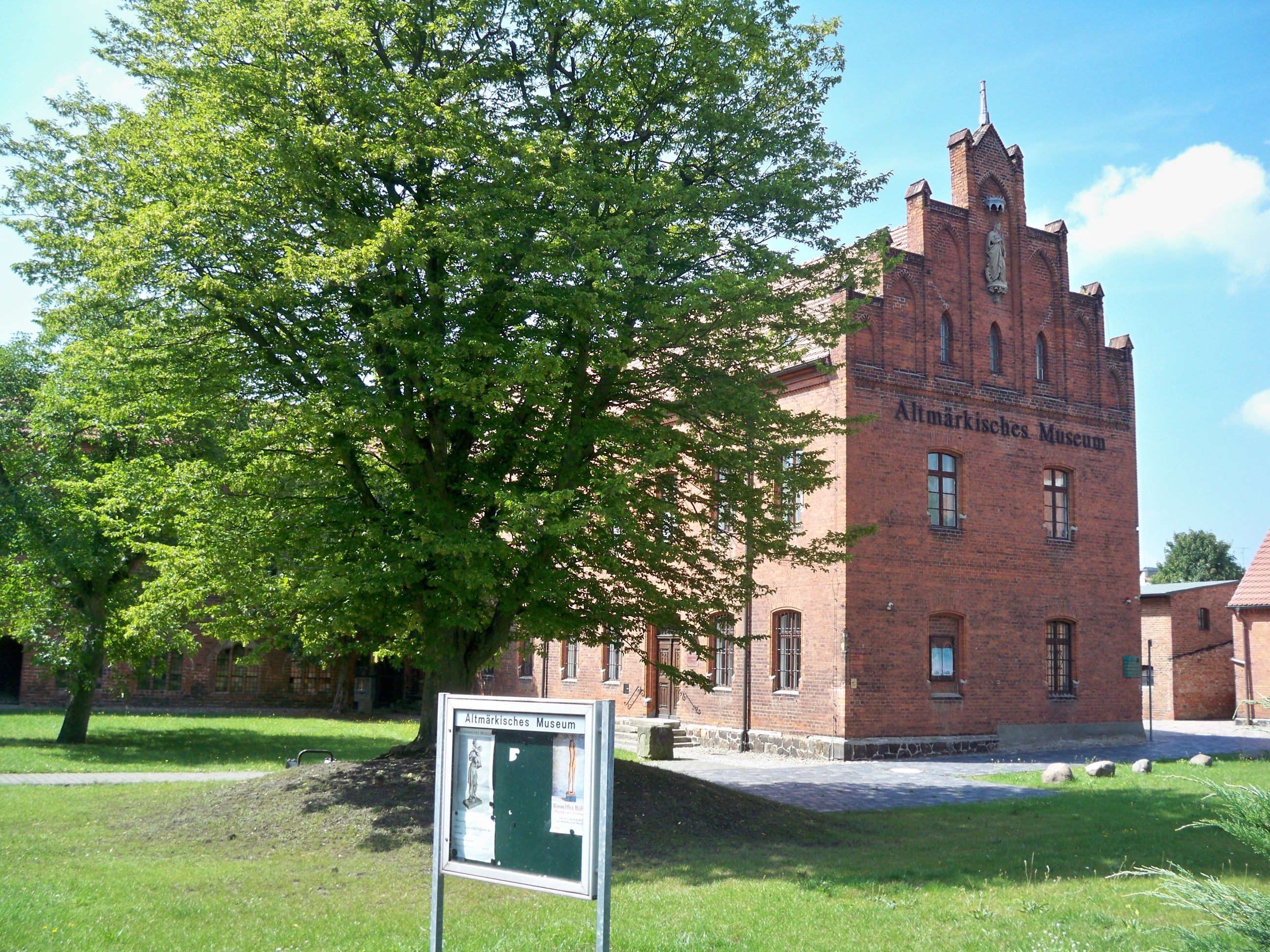 Stendal, Saxony-Anhalt, Altmärkisches Museum as seen from Schadewachten street